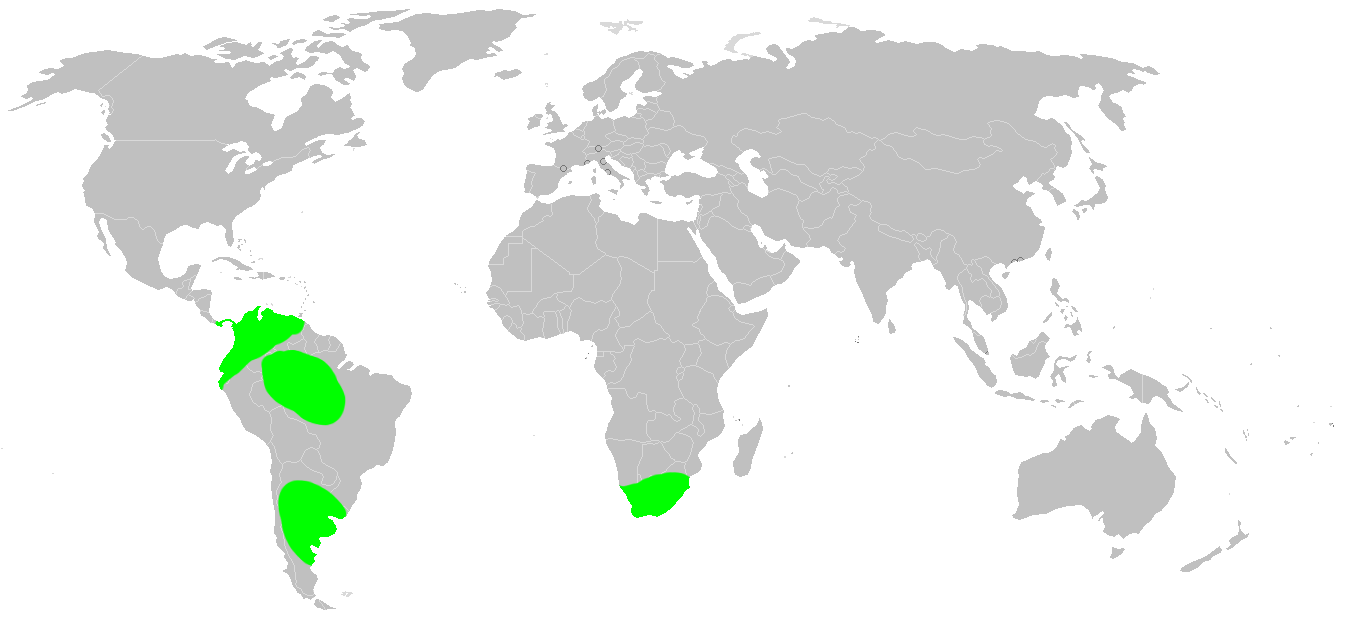 Microstigmatidae habitat distribution, drawn after Platnick: World Spider Catalog 7.0. This is not a precise rendering of the distribution! If you have better information, please replace this map, or send me the info, so i will redraw it.